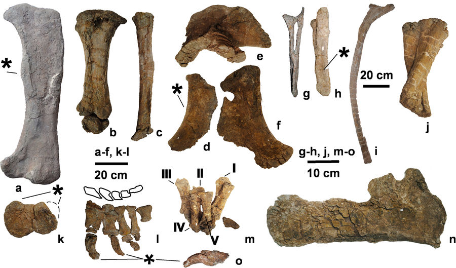 The postcranial skeleton (UMNH.VP.26004) of Mierasaurus bobyoungi gen. nov, sp. nov. with the following elements: (a) right femur (DBGI 39) in posterior view; (b) left tibia and astragalus (DBGI 75) in posterior view; (c) left fibula (DBGI 75) in posterior view; (d) right ischium (DBGI 69 A) in lateral view; (e) left ilium (DBGI 100IL) in medial view; (f) right pubis (DBGI 195) in lateral view; (g) anterior/middle chevron (DBGI 172) in posterior view; (h) anterior/middle chevron (DBGI 172) in right lateral view; (i) dorsal rib (DBGI 100 R1) in medial view; (j) left articulated ulna and radius (DBGI 100R) in anterior view; (k) left femur (DBGI 39) in distal view; (l) a complete left pes (DBGI 75) in dorsal view; (m) left articulated manus (DBGI 100 M) in anterior view; (n) right scapula (DBGI 250) in lateral view; (o) left pedal ungual II in medial view. An asterisk (*) indicates an autapomorphy of Mierasaurus bobyoungi gen. et sp. nov. (l) was drafted by R.R.T. (© Fundación Conjunto Paleontológico de Teruel-Dinópolis) in Adobe Illustrator CS5 (